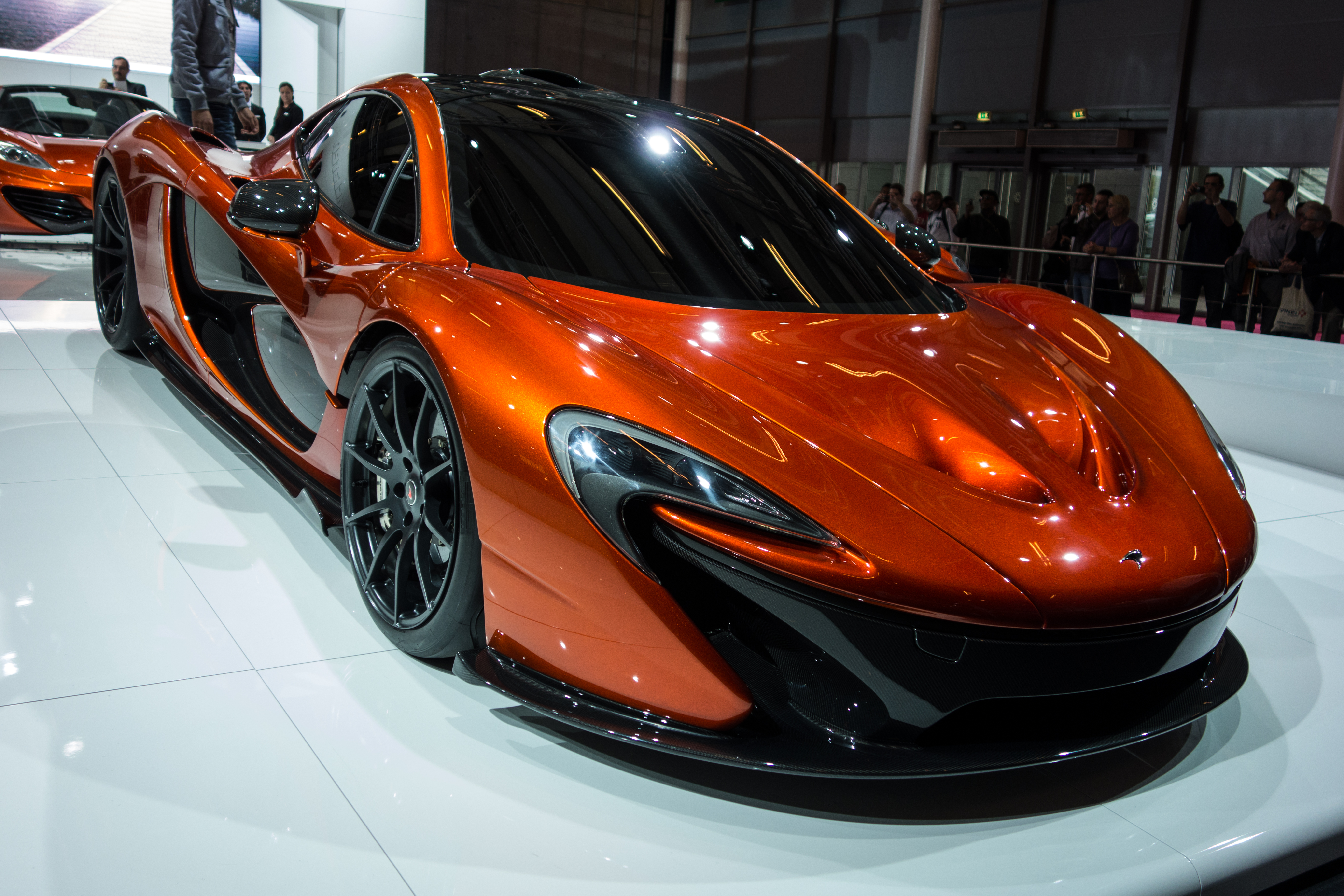 Mondial De L'automobile Paris 2012 | Paris Motor Show 2012